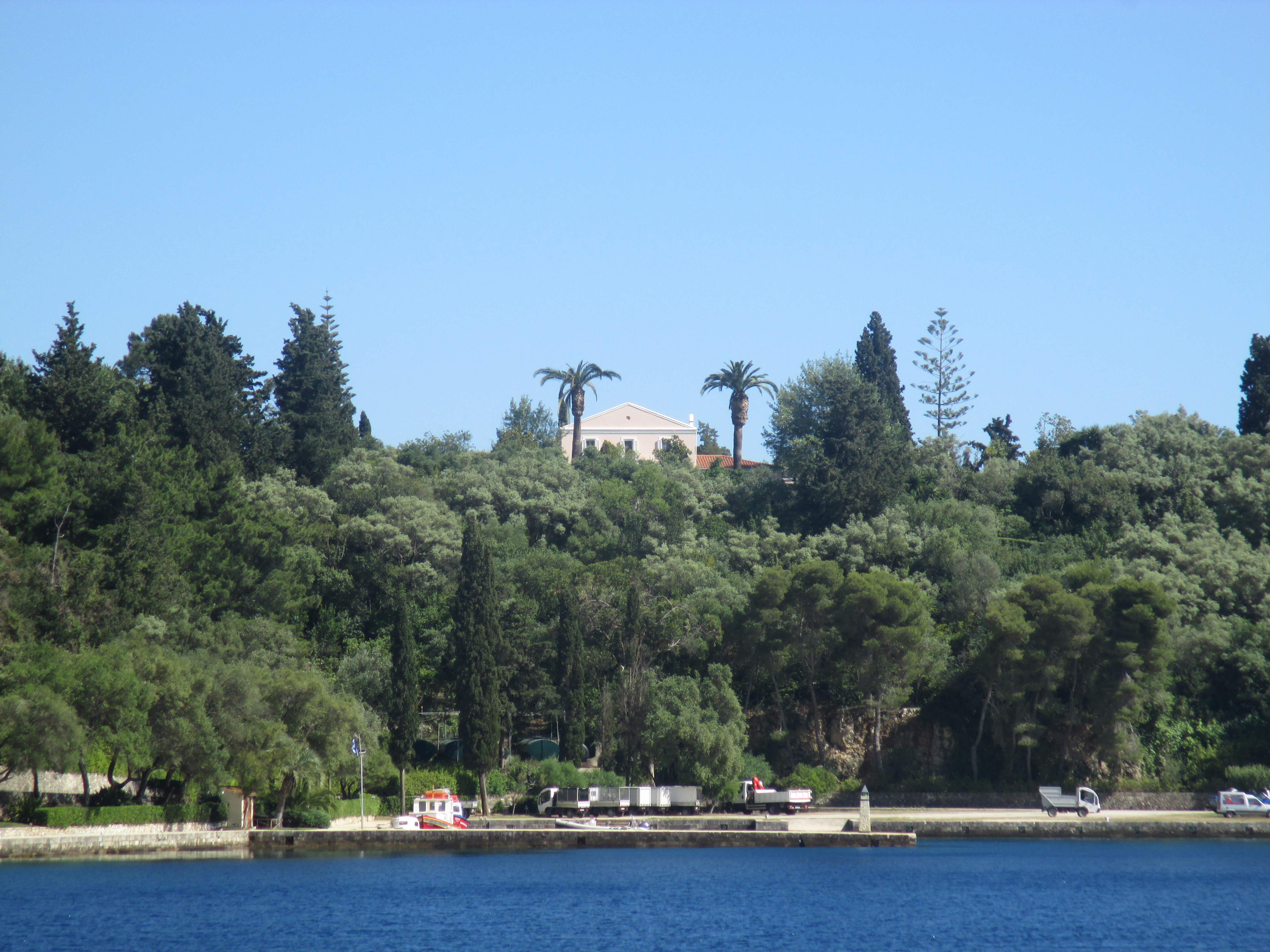 Skorpios island, Ionian Islands, Greece.